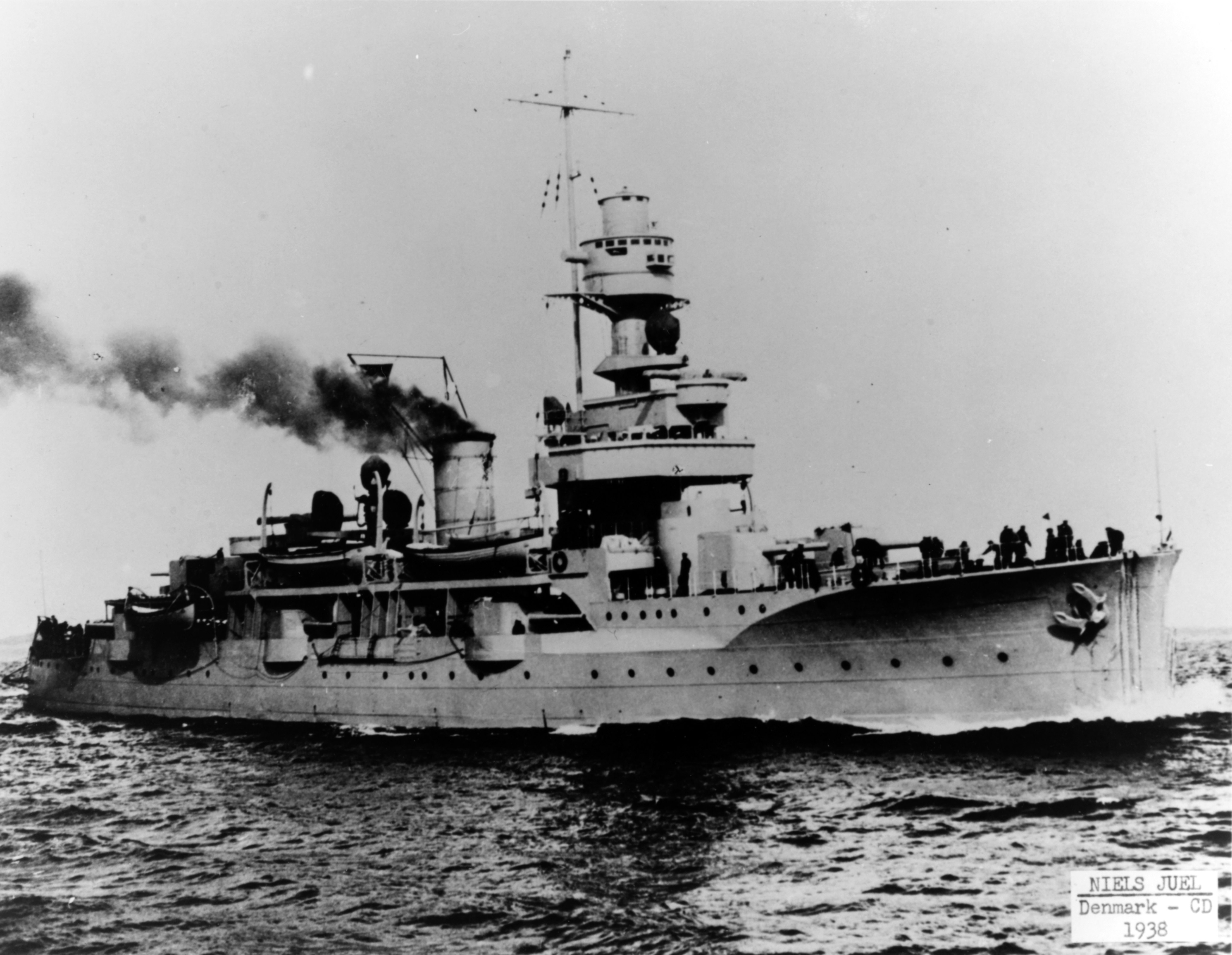 Danish training cruiser Niel Juel